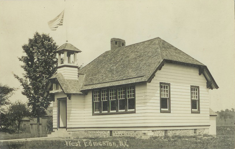 This image is part of the wikisource:en:History of Edmeston, New York documents and was provided by the Edmeston Museum in Edmeston, New York